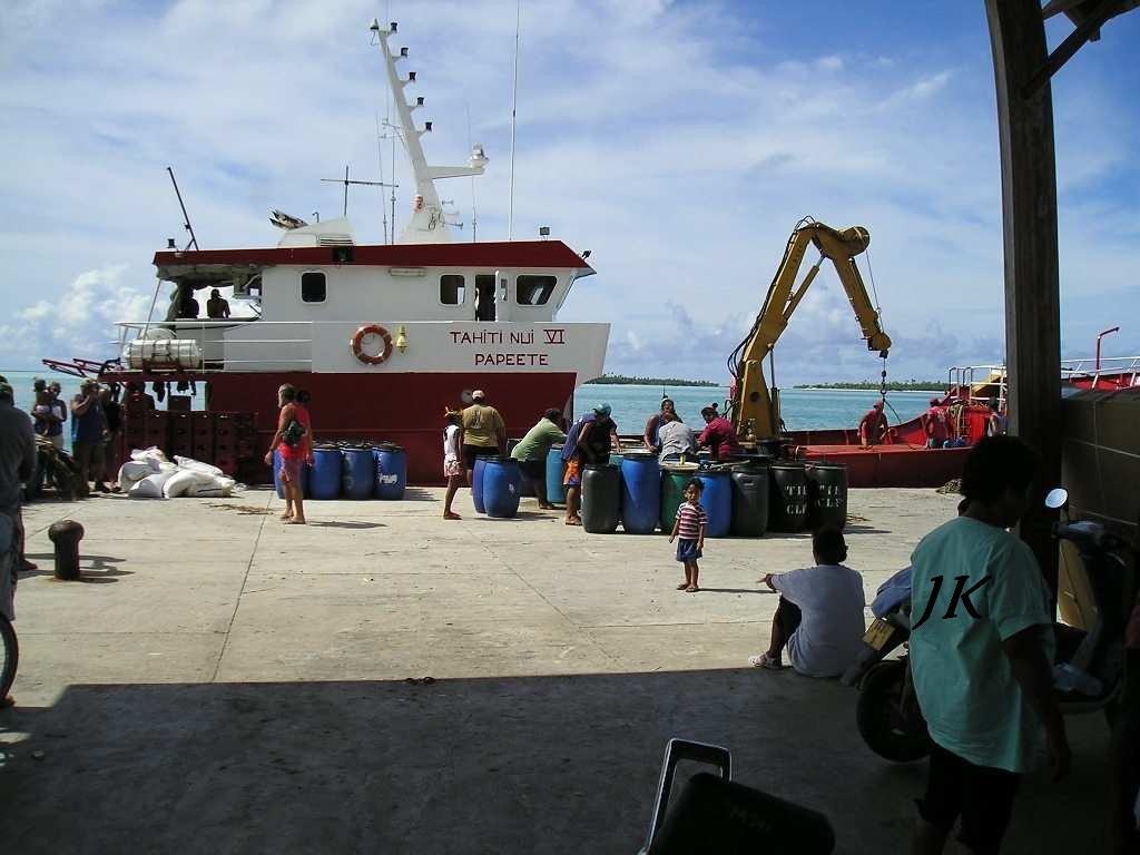 Photograph of supply ship "Tahiti Nui VI" for Maupiti (French Polynesia). The Blue Barrels are Noni destined to Papeete for processing. Construit en 1995 Tonnage brut / net 80 / ... Chantier Chantier Naval du Pacifique Sud Dimensions 24,75 x 6,5 x 2,6 m Propulsion mot. Wartsila Tirant d'eau 2,10 m Puissance : 625 kW Port en lourd Vitesse : 12 nds Ex MAUPITI TO'U AIA